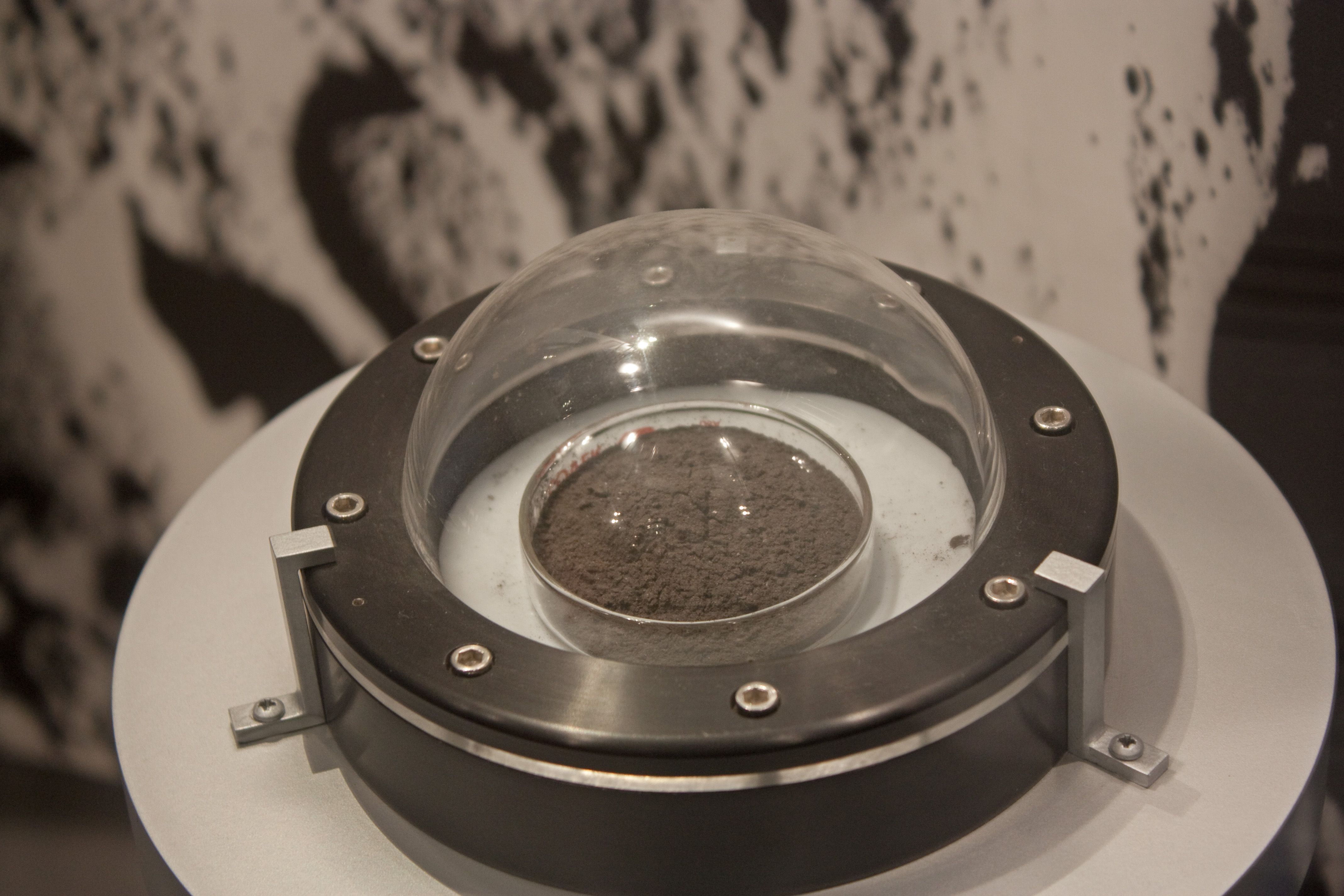 Lunar Regolith 70050 sample, collected from the Moon by the Apollo 17 mission, on display in the National Museum of Natural History.